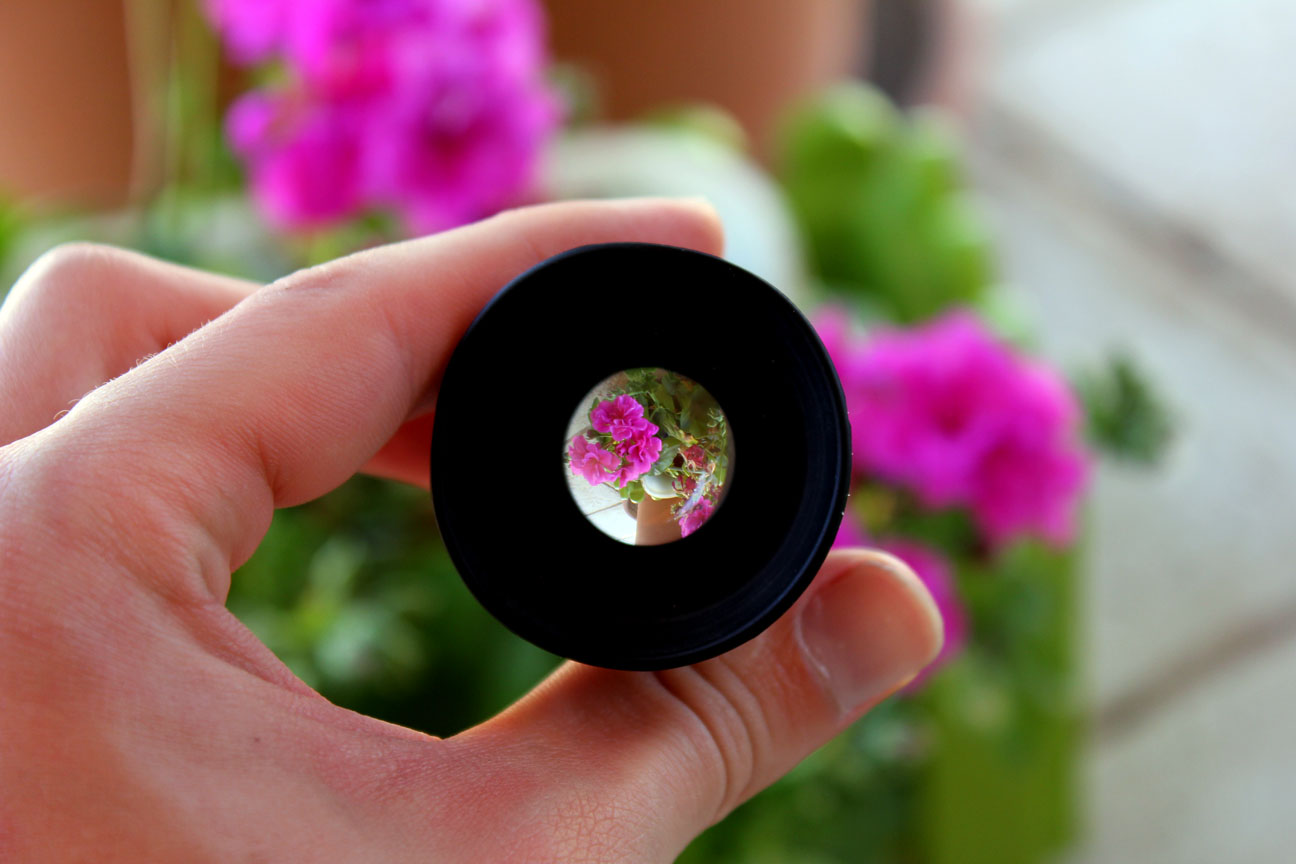 Image seen through a 25mm Kellner eyepiece.